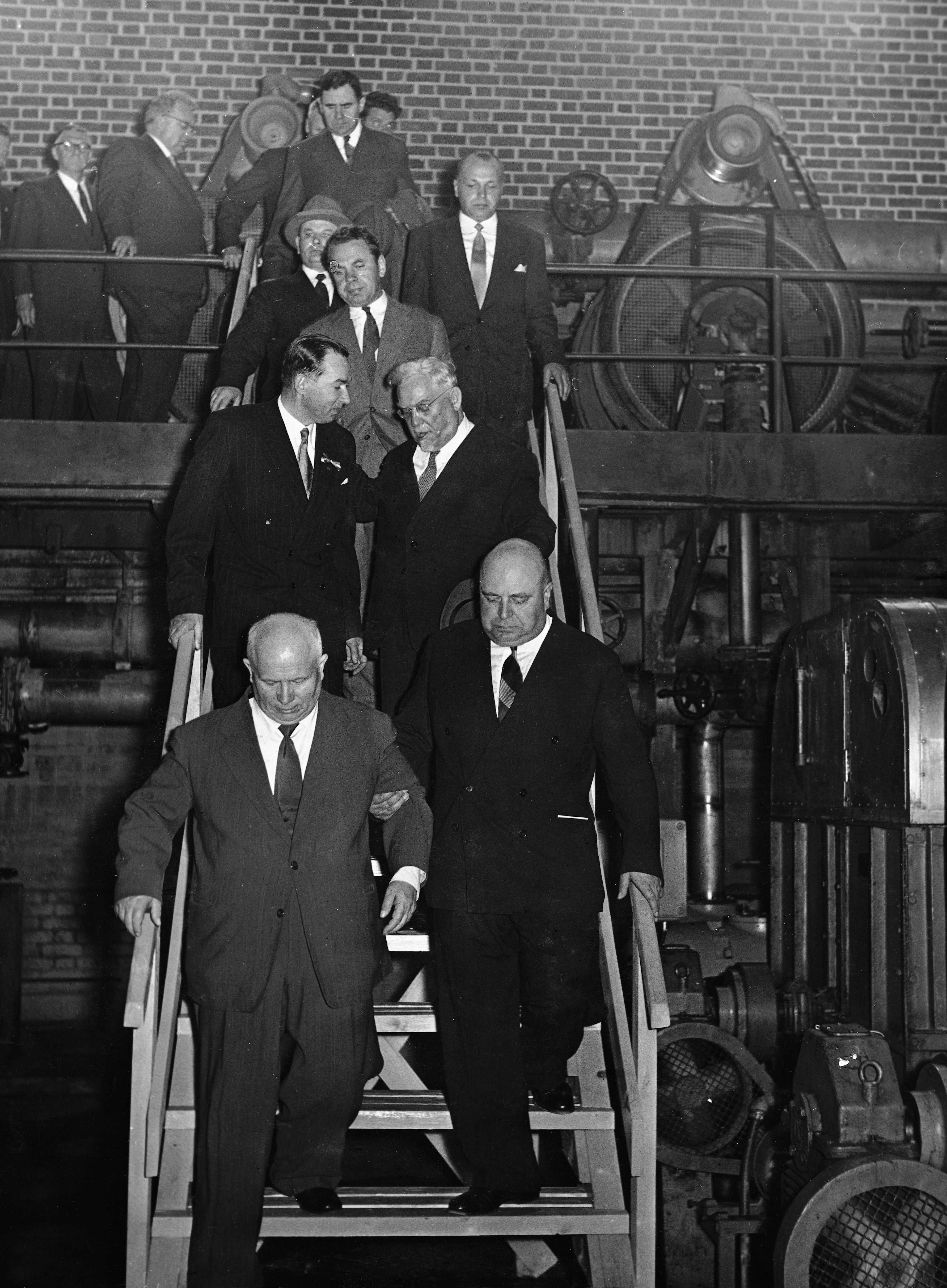 Finnish businessman Juuso Walden and Nikita Khrushchev at Kaipola paper mill in Jämsänkoski, Finland in 1957